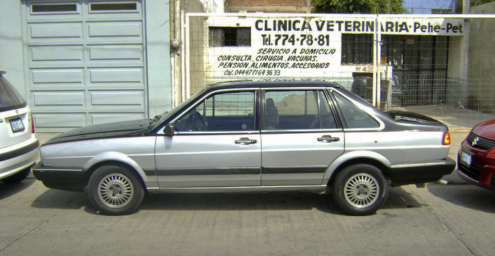 1988 Volkswagen Corsar CD Edición Limitada (Mexico)